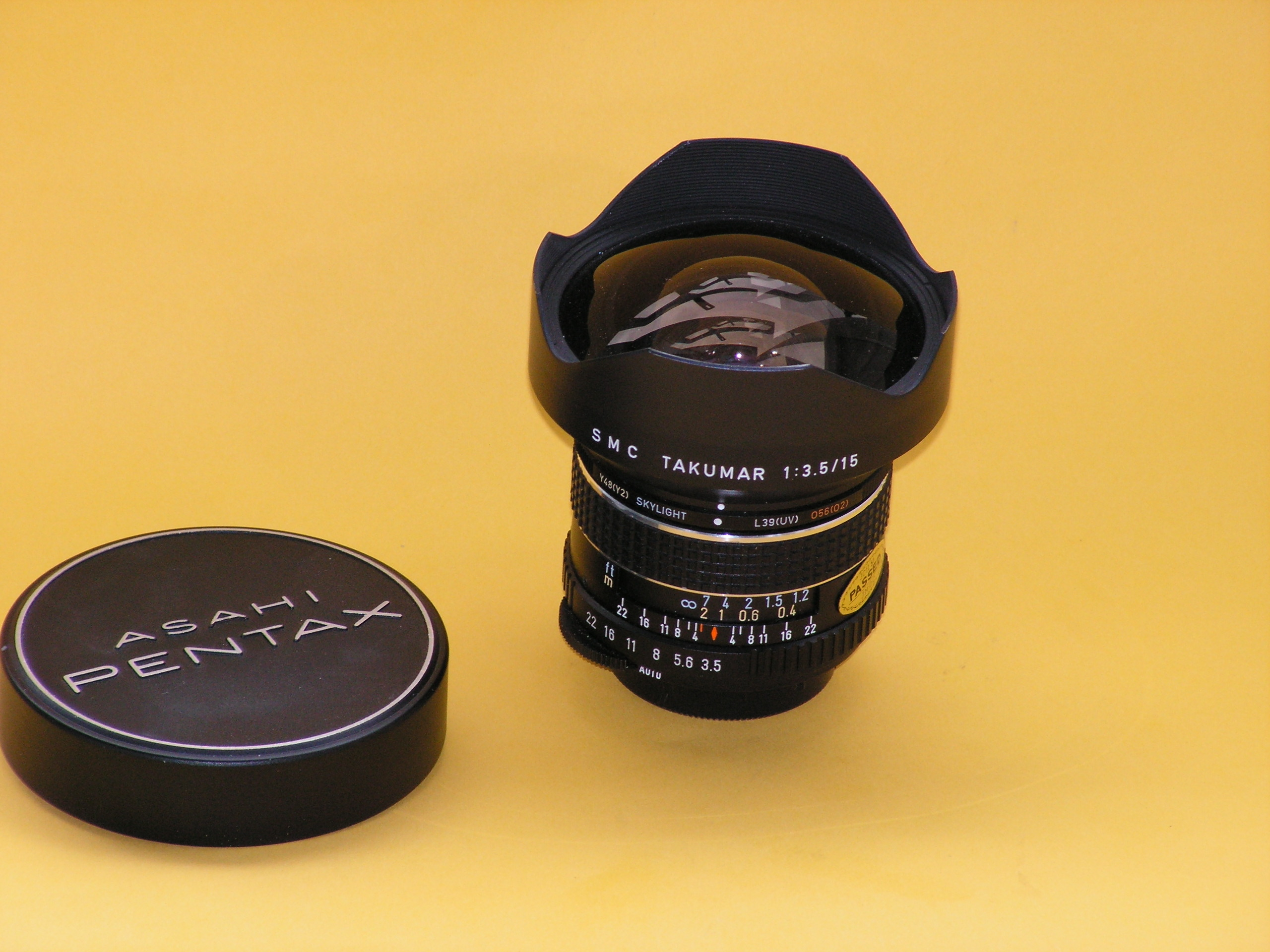 Fisheye lense